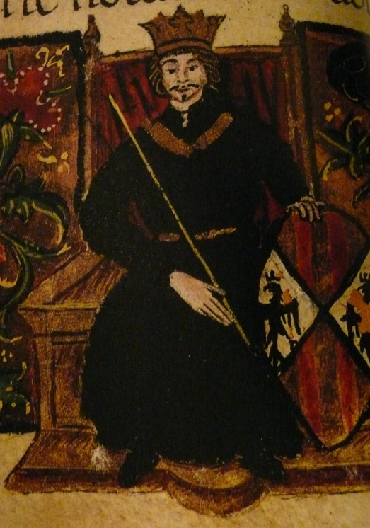 Alphonse I of Aragon